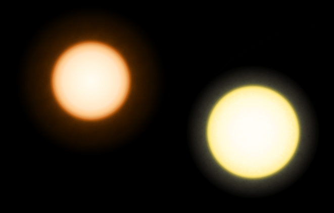 This illustration shows the relative size of Epsilon Eridani (left; 0.84 RSun) and the Sun (right). Also used to show 54 Piscium (0.85 RSun)